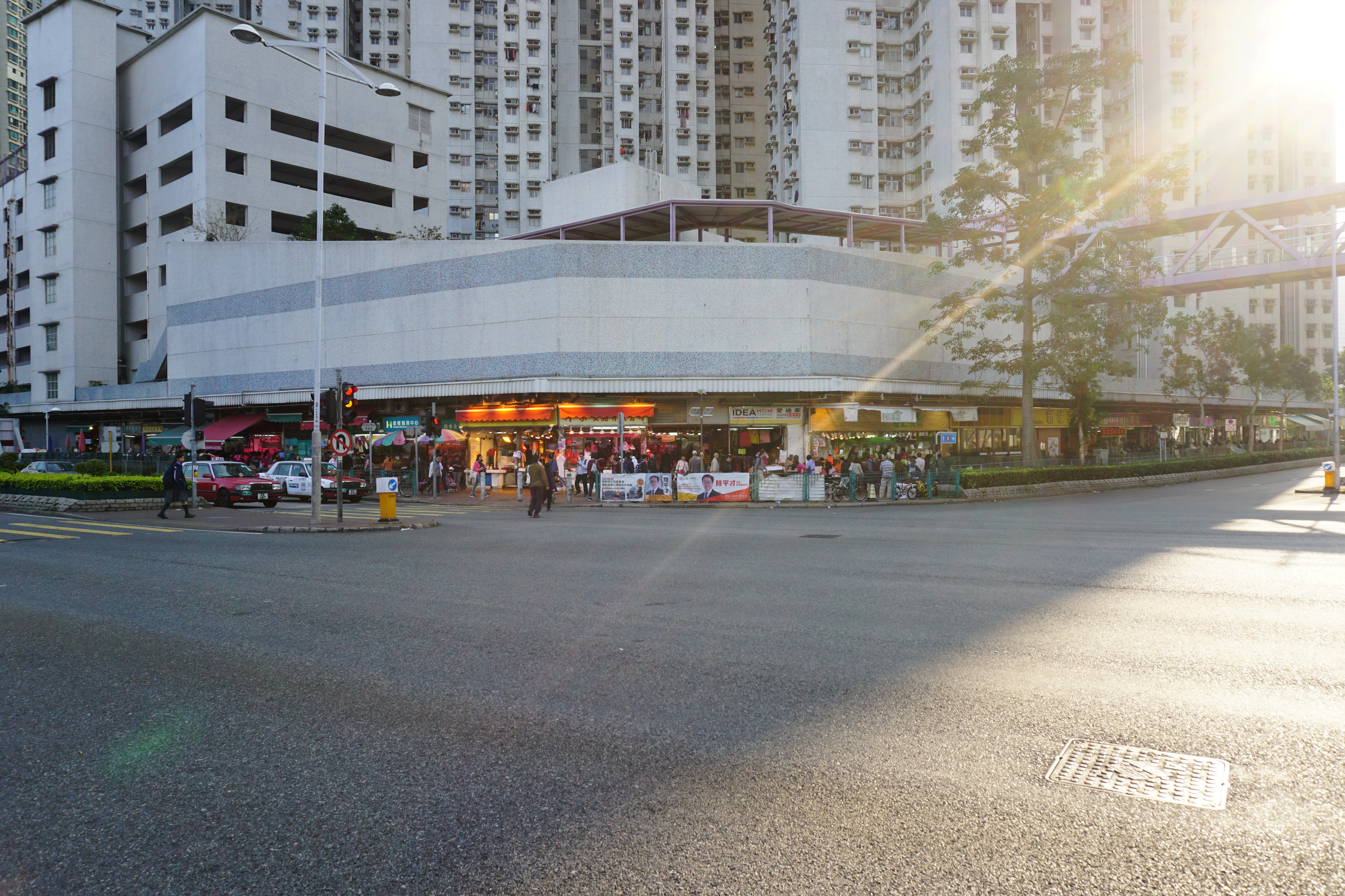 Beverly Garden in Tseung Kwan O, Hong Kong.